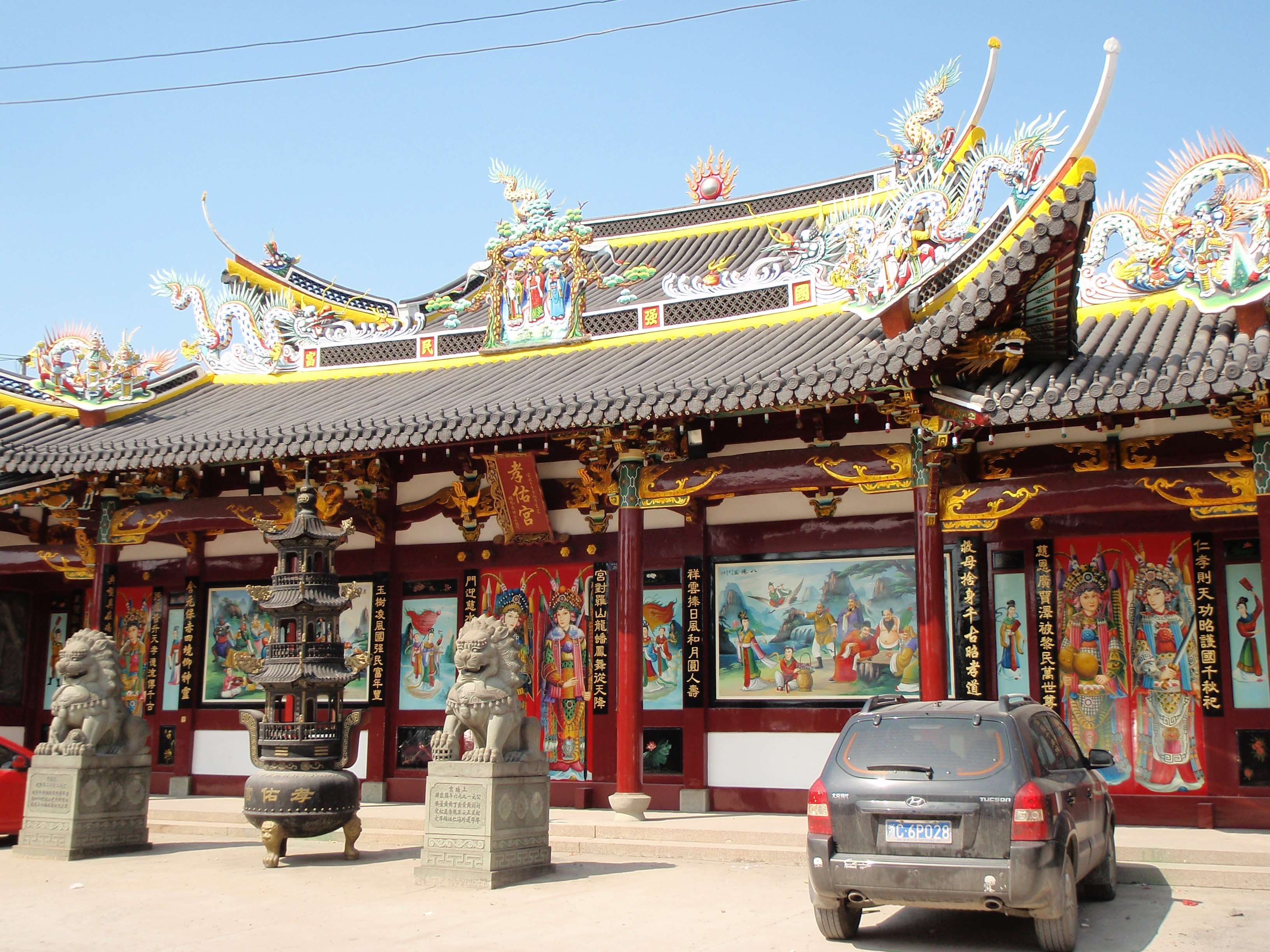 孝佑宫 Xiàoyòu gōng = "Temple of the Filial Blessing".